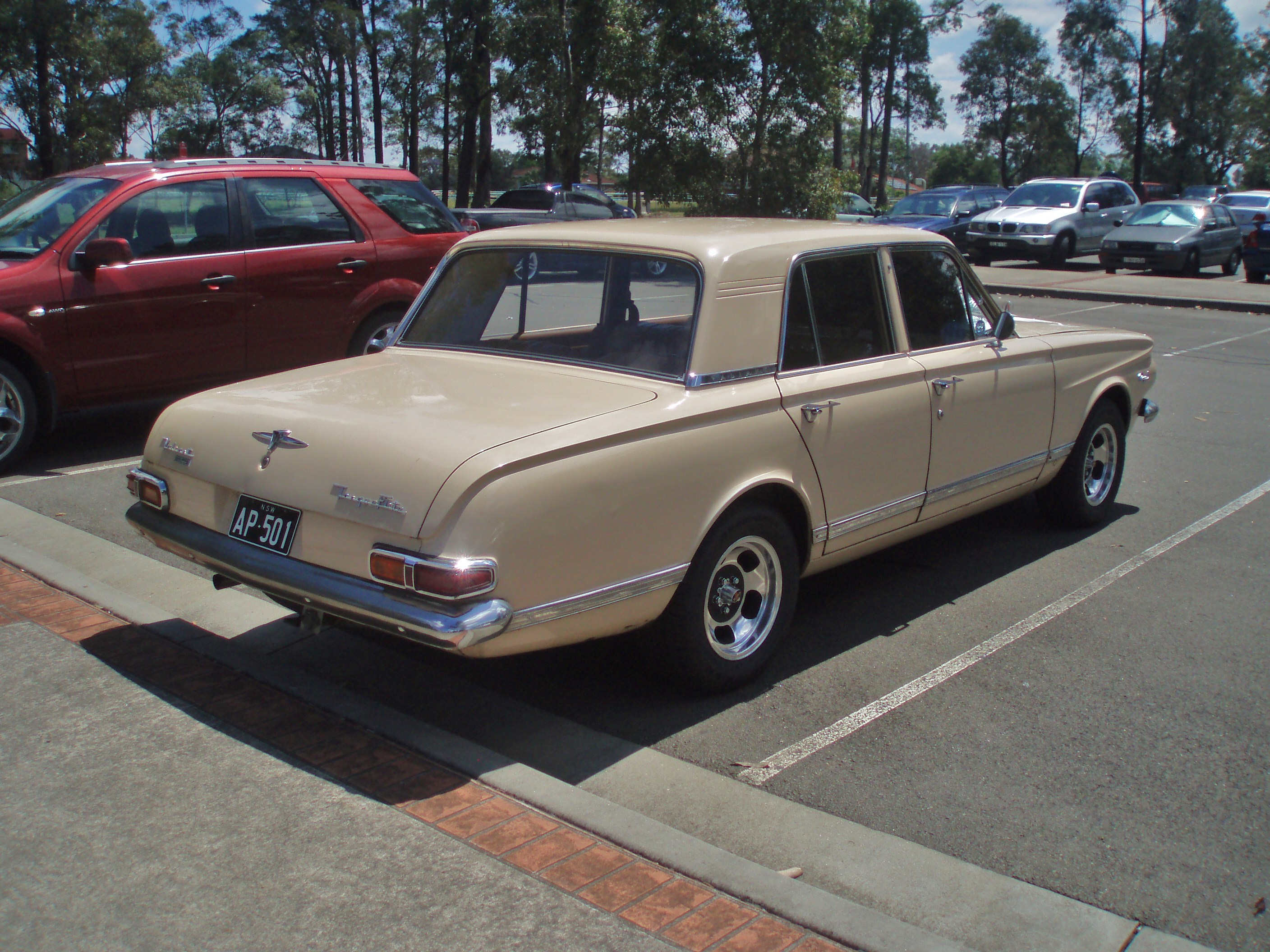 Chrysler AP5 Valiant Regal sedan. Taken in the carpark outside the 2010 New South Wales All Chrysler Day, held at Fairfield Showground, Prairiewood, Sydney.